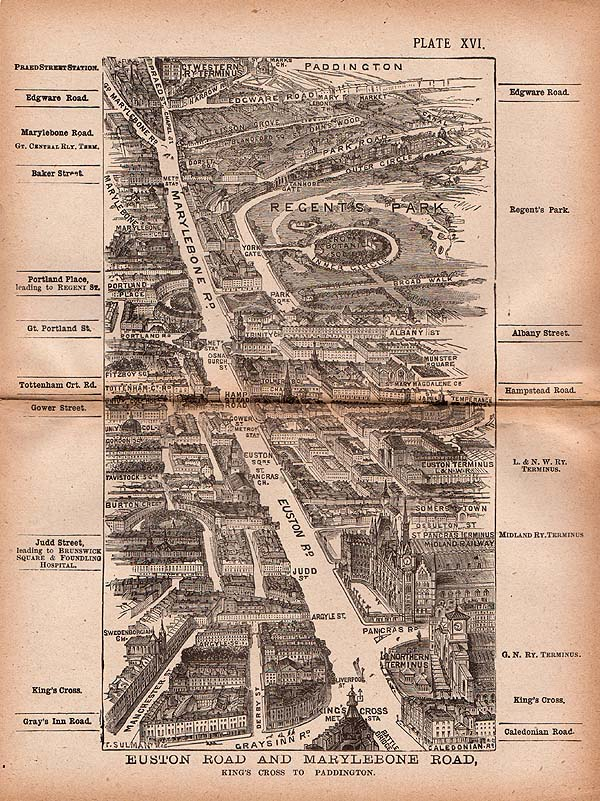 Euston Road and Marylebone Road, King's Cross to Paddington. Ref: 2347195 A bird's-eye view of the length of what is now 'Euston Road and Marylebone Road, King's Cross to Paddington' with the adjacent streets and buildings Designed by the architectural draughtsman Thomas Sulman engraved for Herbert Fry's "London: Illustrated by Twenty Bird's Eye Views of the Principal Streets." Engraved by George William Ruffle, and originally published in 1891, this map has been 'Completely revised and brought up to date' and published in 1918.